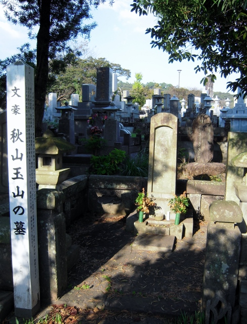 Grave of Akiyama Gyokuzan at Omine Cemetery in Kumamoto City, Japan